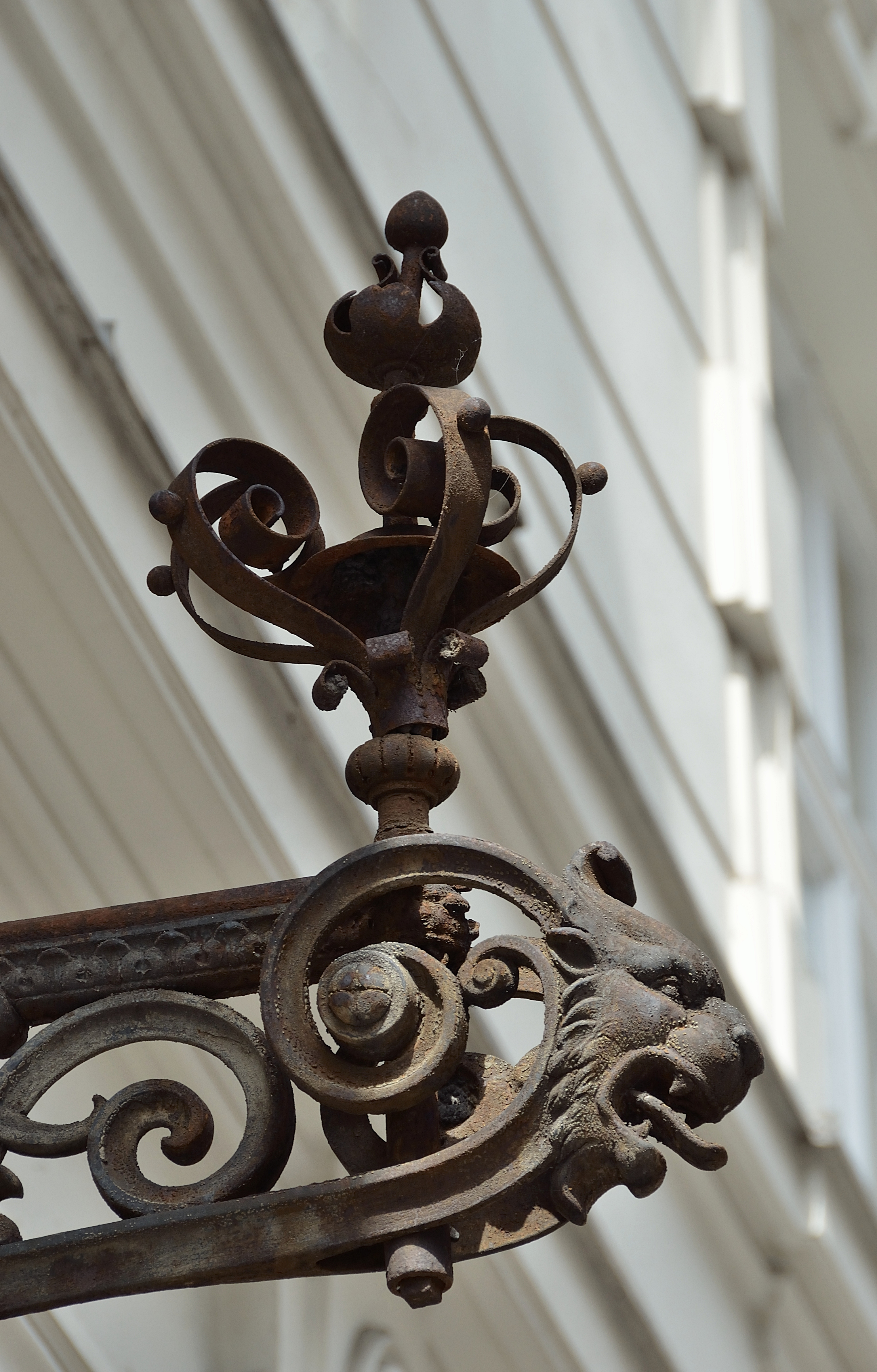 Old gas lighting wall bracket and pipe with lacking lantern in Piaristengasse 11, Josefstadt, Vienna, Austria